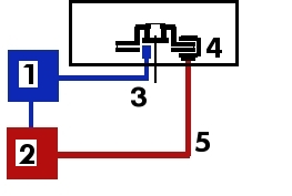 Anti-lock braking system